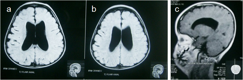 Magnetic Resonance of head (MR-Head). MR-Head showing supratentorial non-communicating hydrocephalus (a, b) and slightly hypoplastic corpus callosum (c).